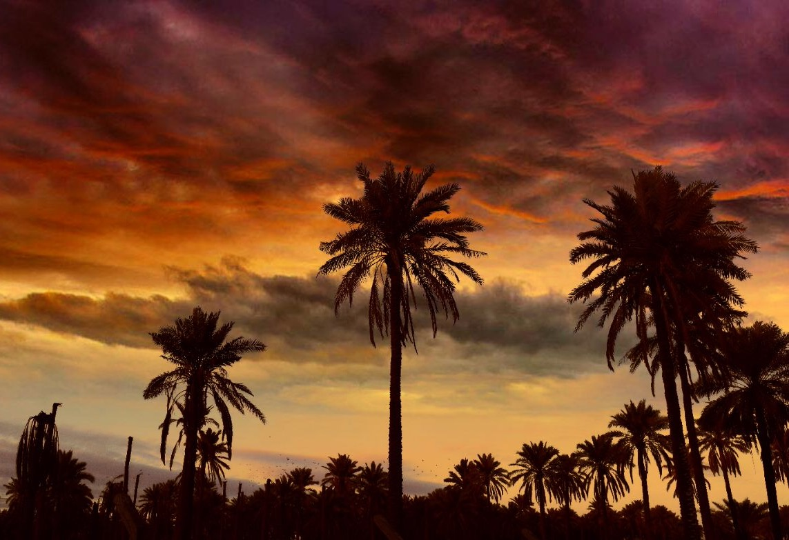 Karbala dates Orchids, minutes before sunset.الشجرة التين والأغنام